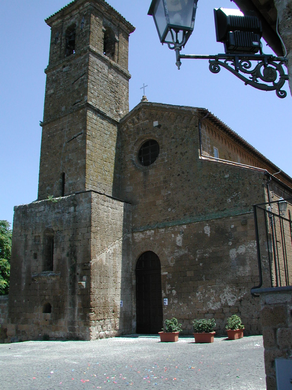 View from the square